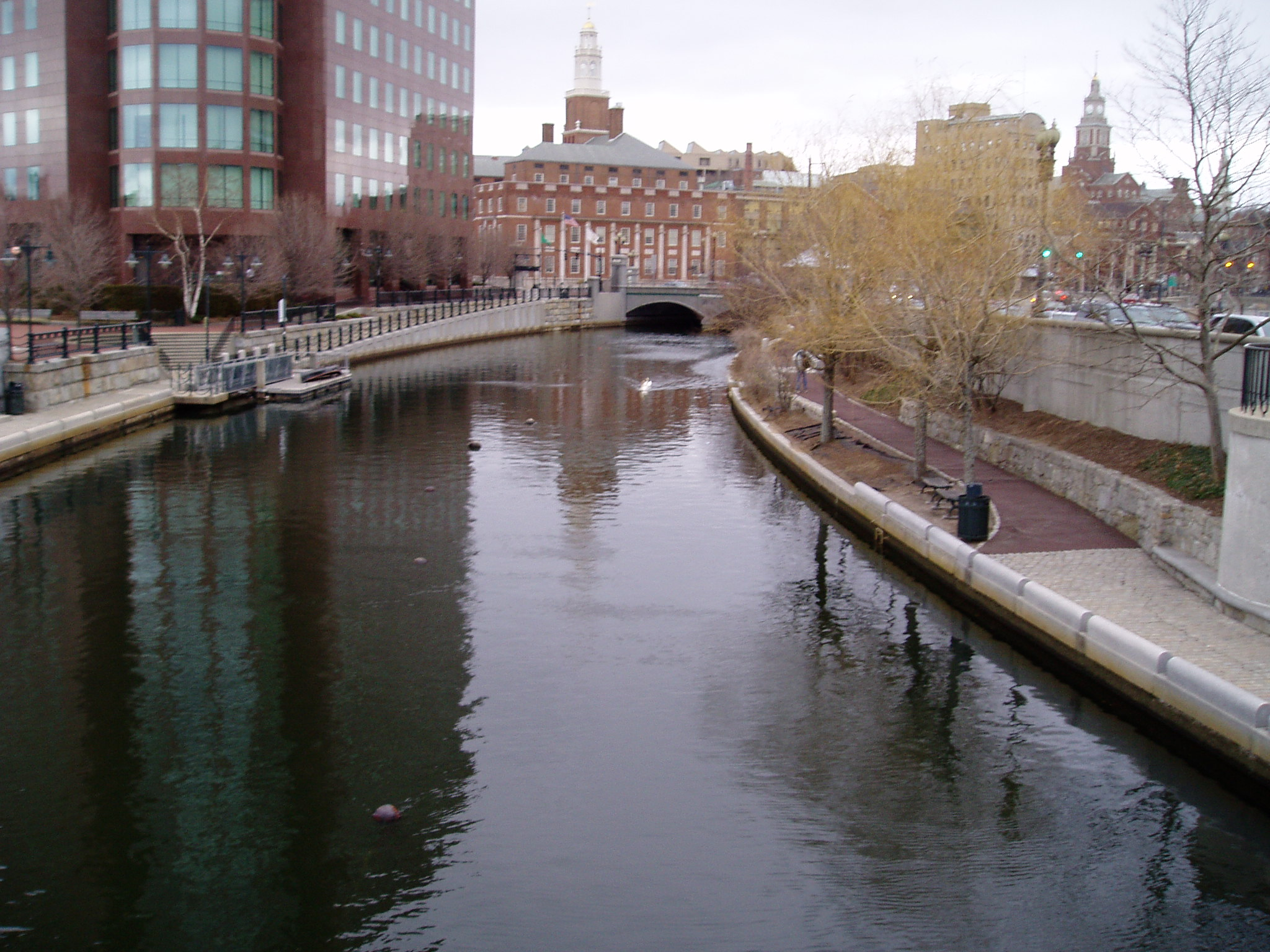 Waterplace Park in Downcity Providence. Taken by user: loodog.